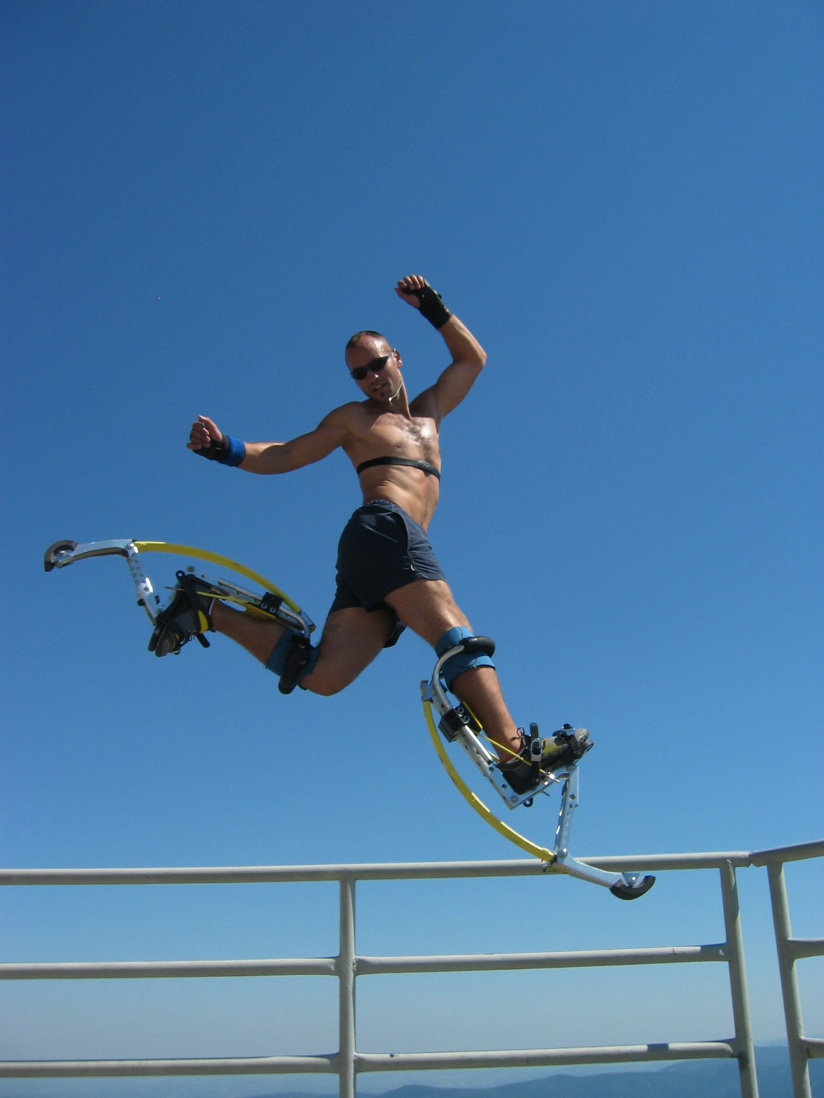 Powerbocking jumper